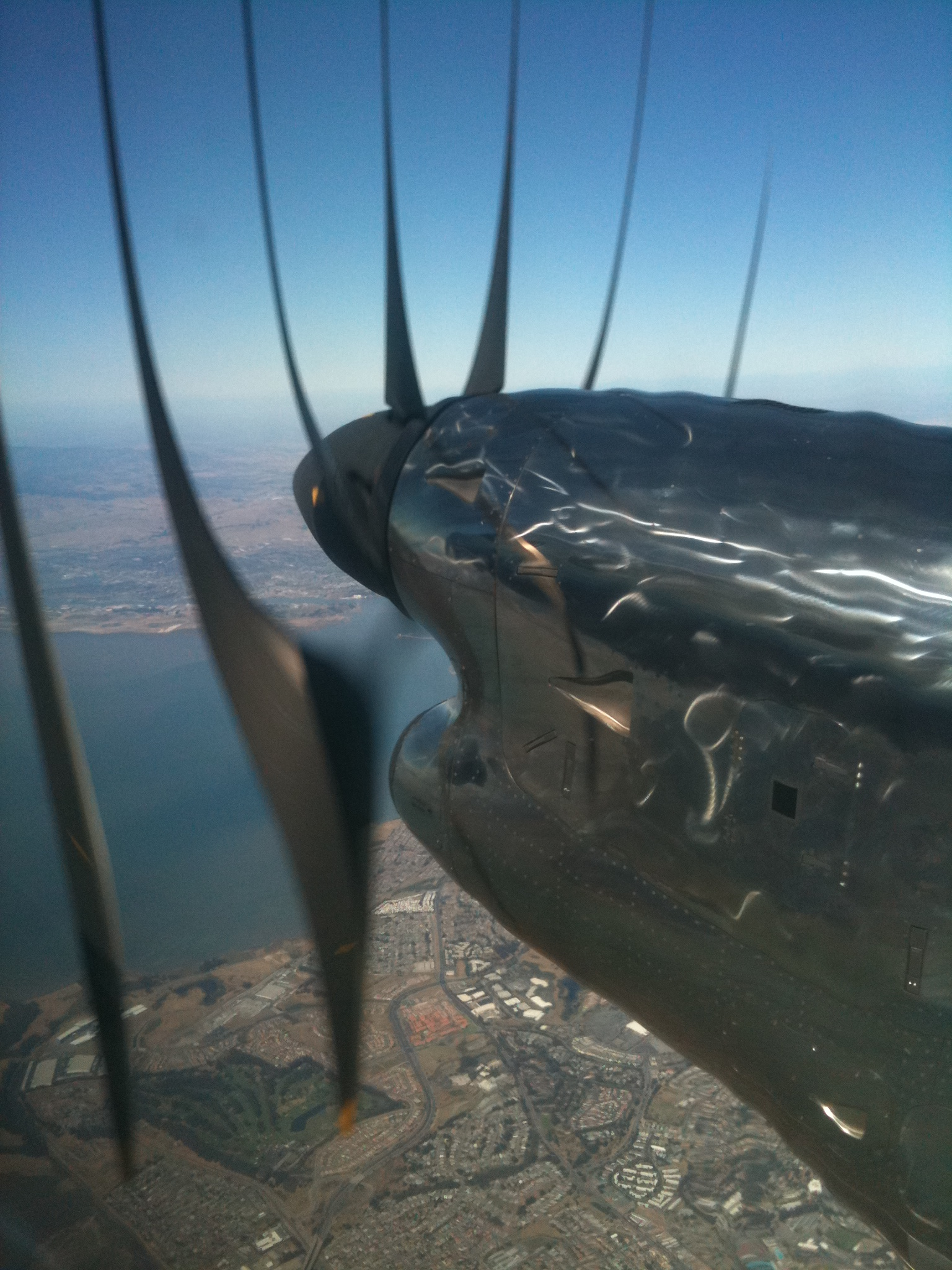 Turboprop, Rolling Shutter Example